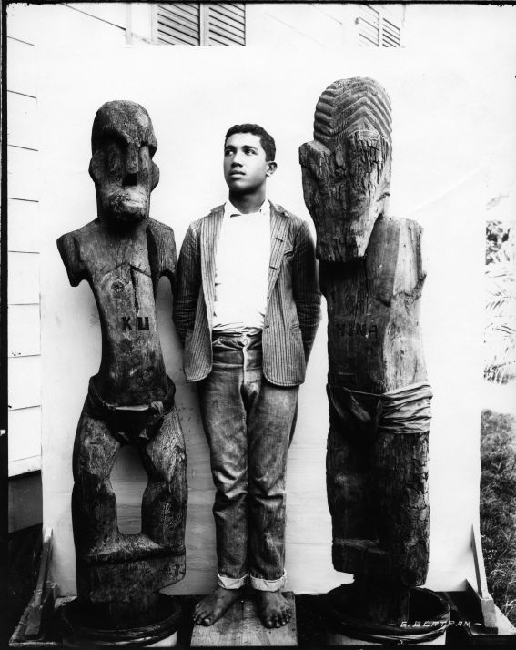 Title: Ku & Hina Creator: Brother Bertram Subjects: Artifacts; People